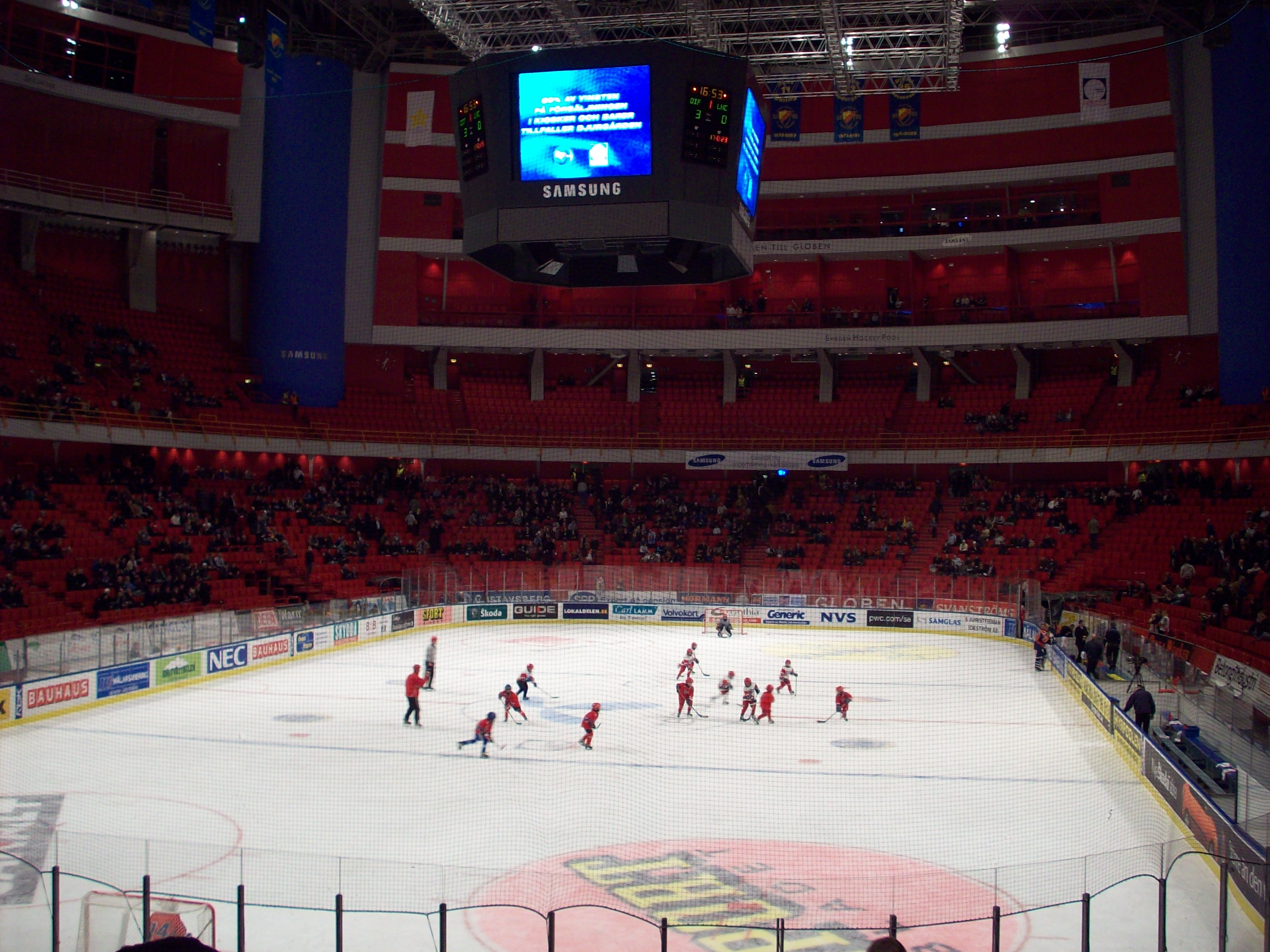 Interior of Stockholm Globe Arena during the Djurgårdens IF-Linköpings HC (3-4) Swedish Elite League game.